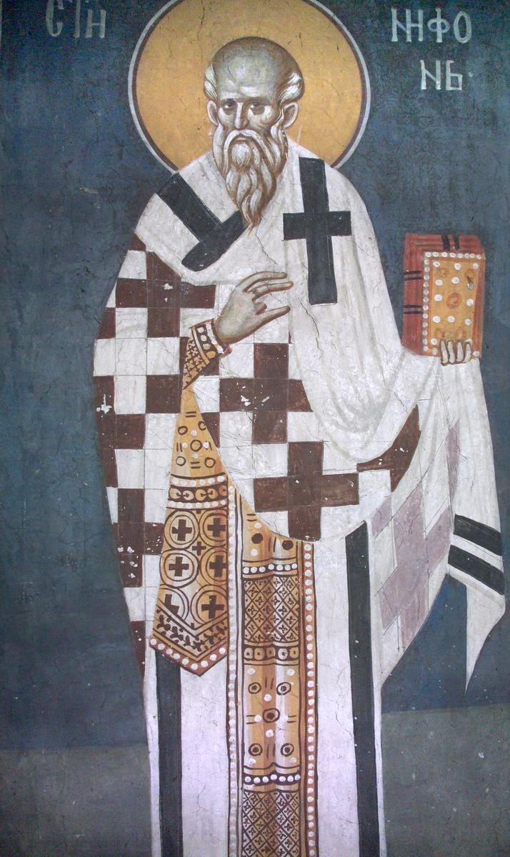 Icon of Saint Nifont in Gračanica, Serbia